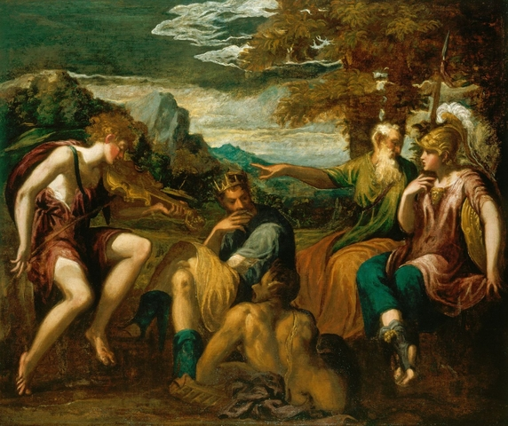 Andrea Schiavone (c. 1510-1563) The Judgement of Midas c. 1548-50 Oil on canvas | RCIN 402862 Full note on RC source page In 2017 in the King's Gallery, Kensington Palace Provenance: Acquired by the States of Holland and West Friesland for presentation to Charles II in 1660